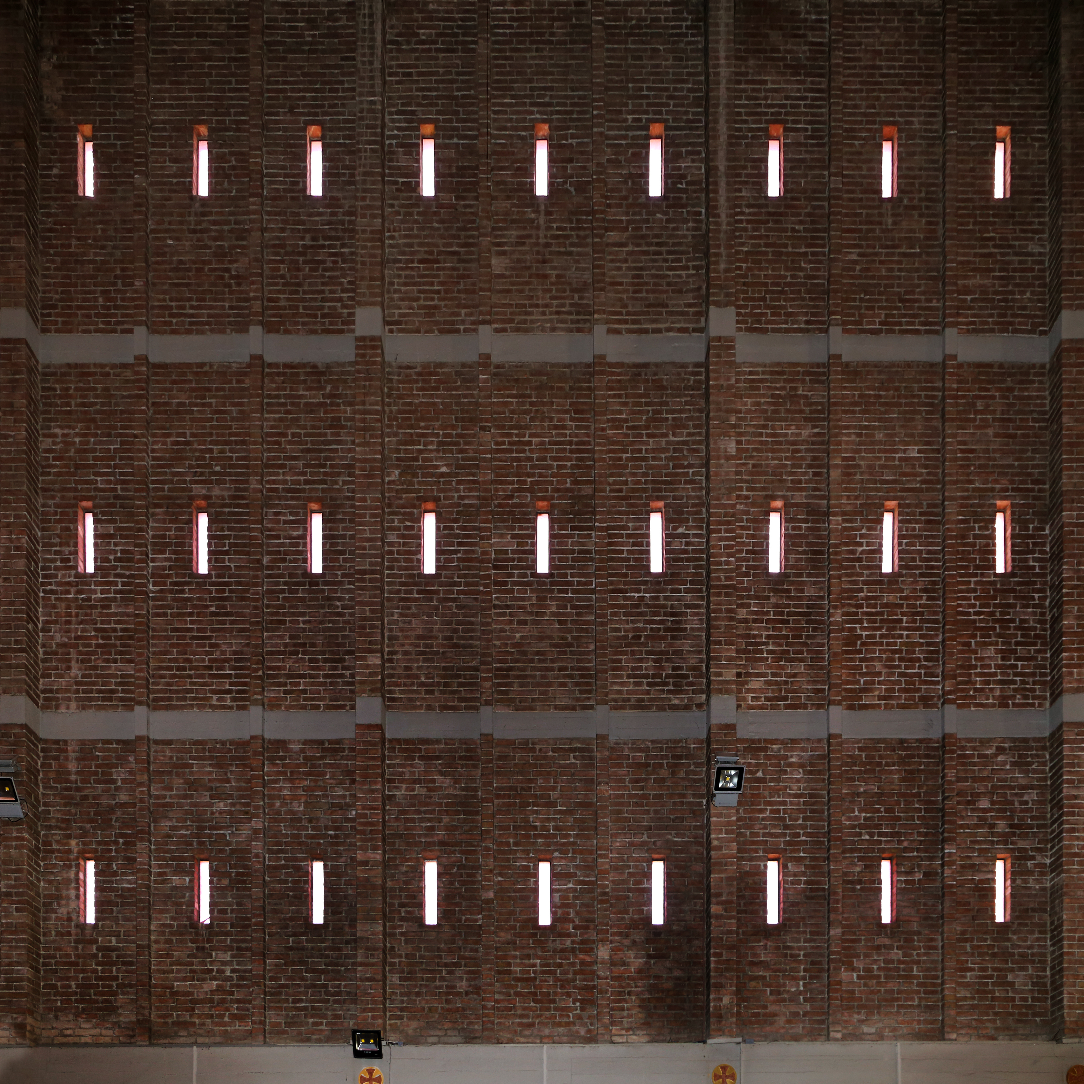 Sante Maria e Tecla (Pistoia)